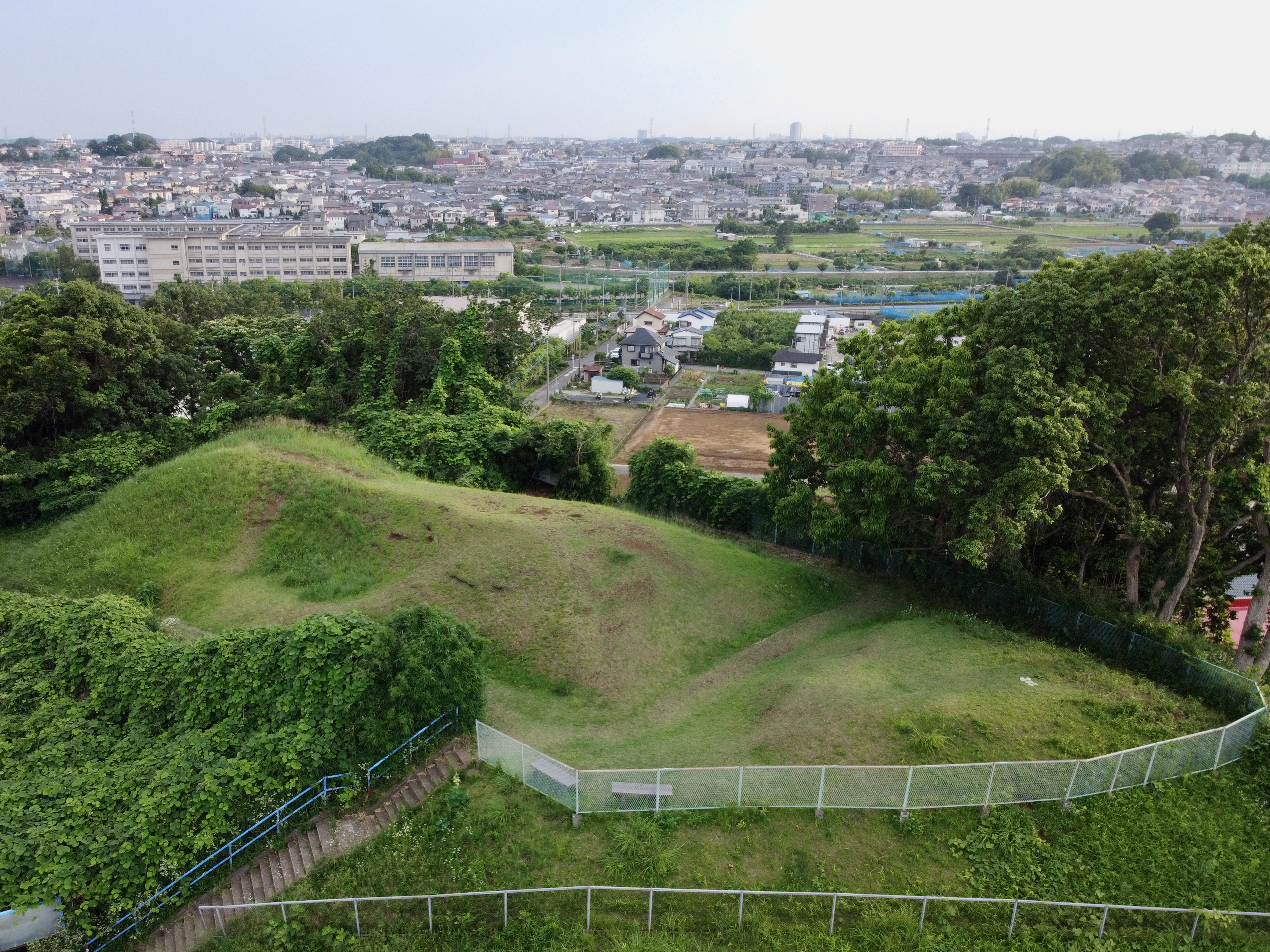 Aerial view of Inarimae Kofungun in Yokohama, Japan